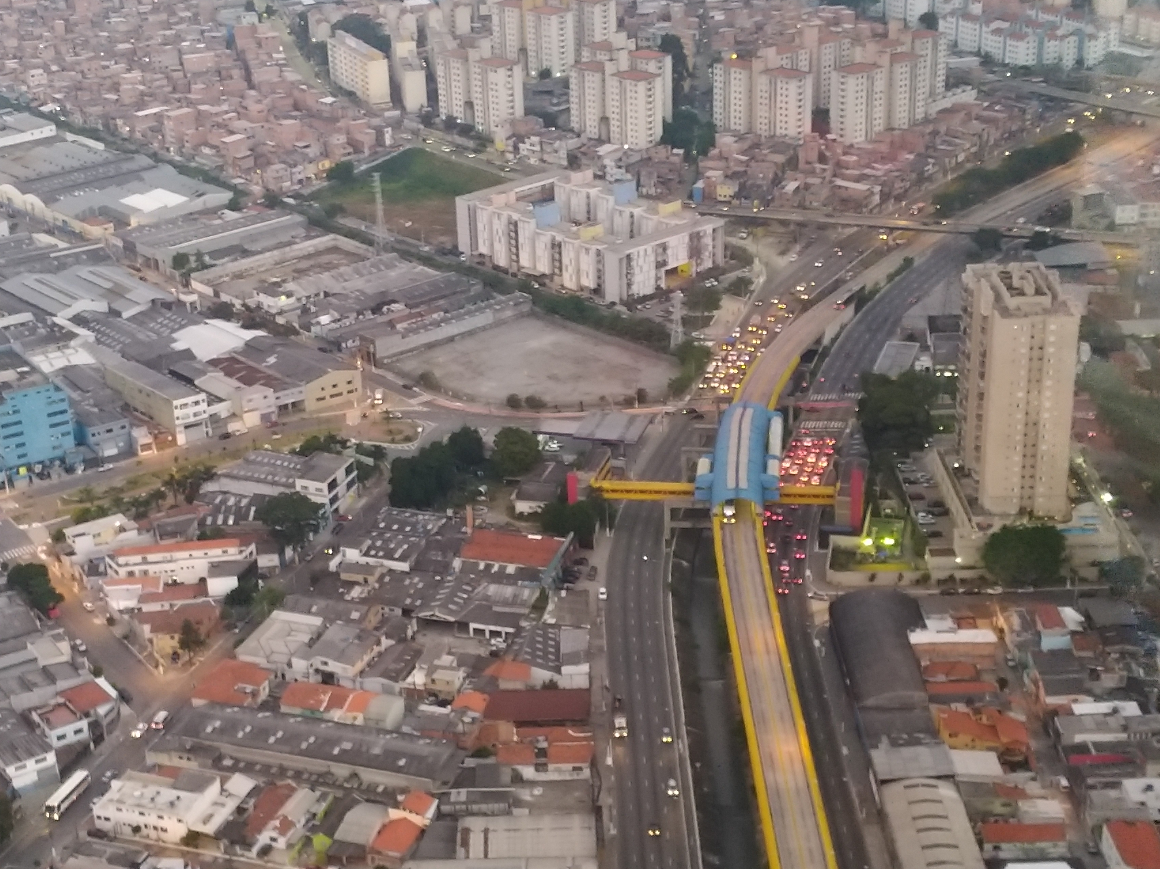 Aerial image of Rua do Grito Station, Tiradentes Express.